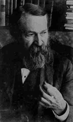 Ernst Mach, Austrian physicist and philosopher